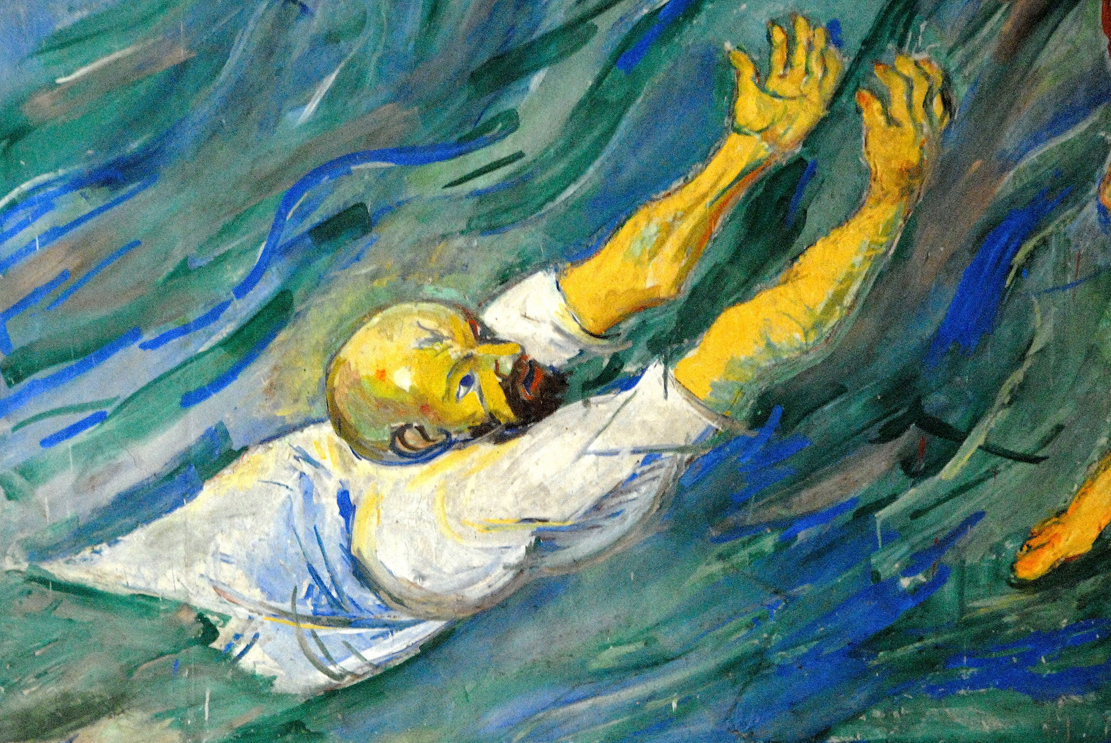 Extract (drowning Saint Peter) of Herbert Boeckl`s fresco "Saint Peter`s rescue from the Lake Galilee" (1925) inside the cathedral of Maria Saal, community Maria Saal, district Klagenfurt-Land, Carinthia, Austria